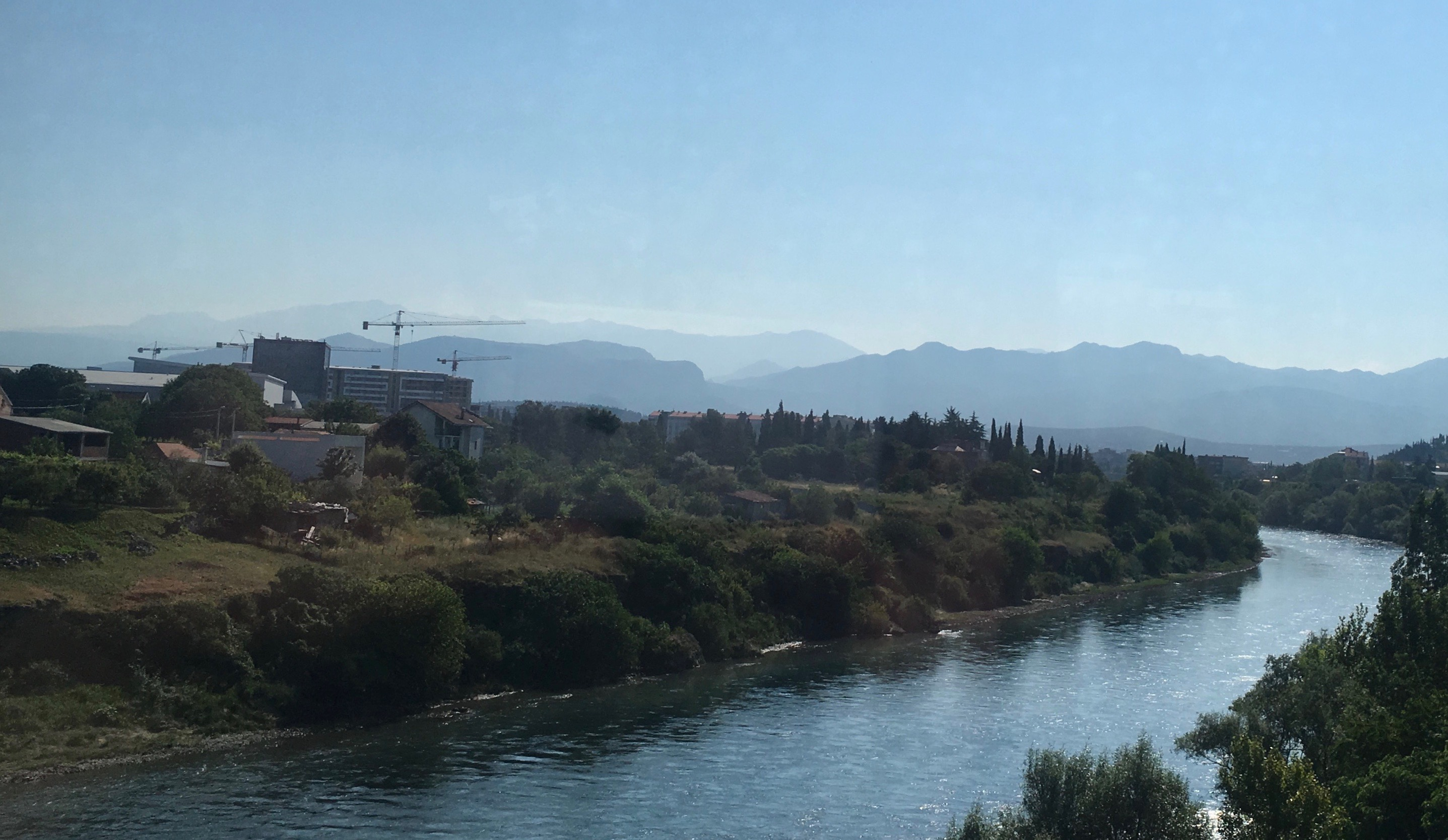 Morača River in Podgorica (Montenegro), view from the bridge.